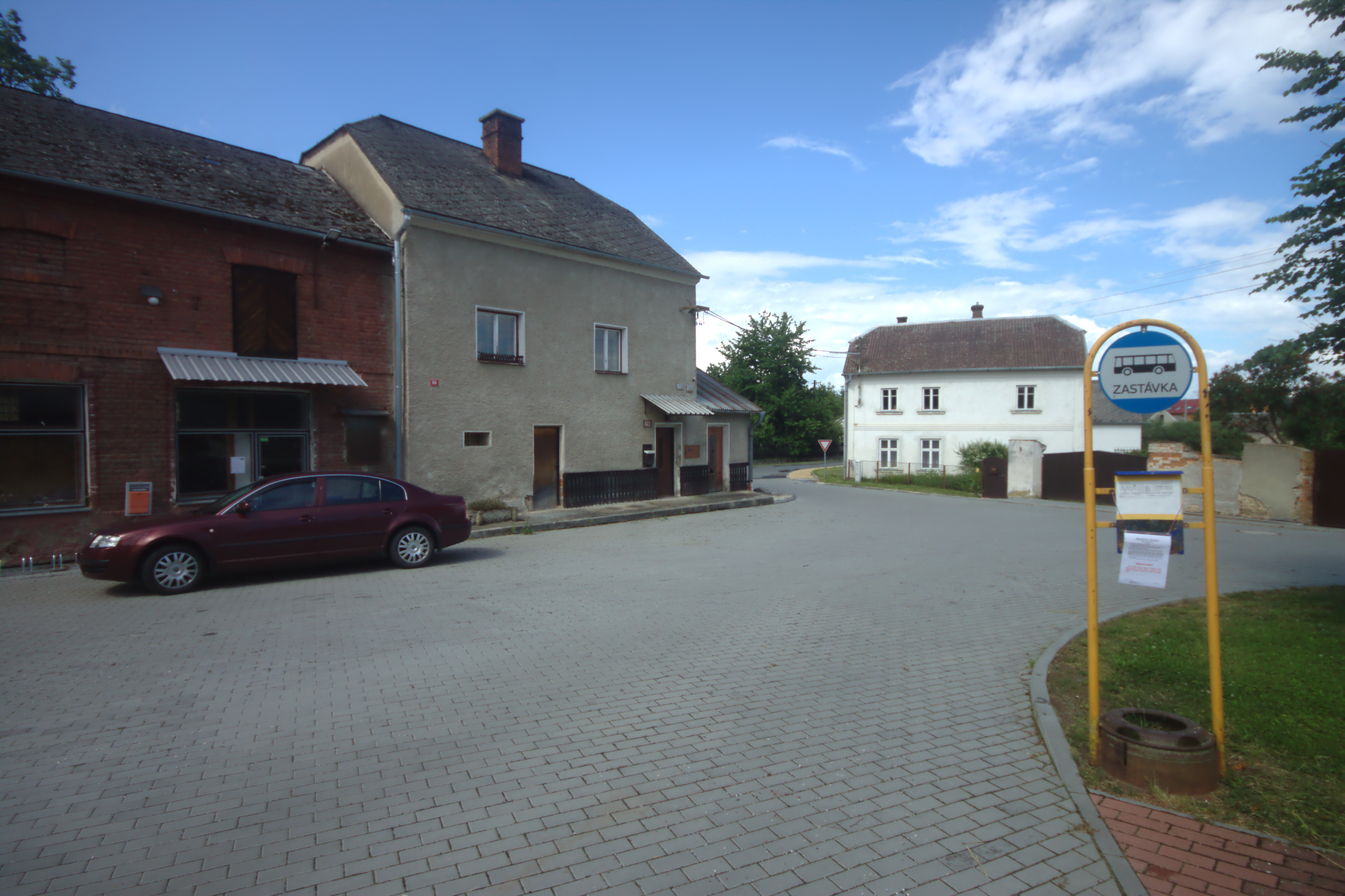 A bus stop in Hlivice, Olomouc Region, CZ